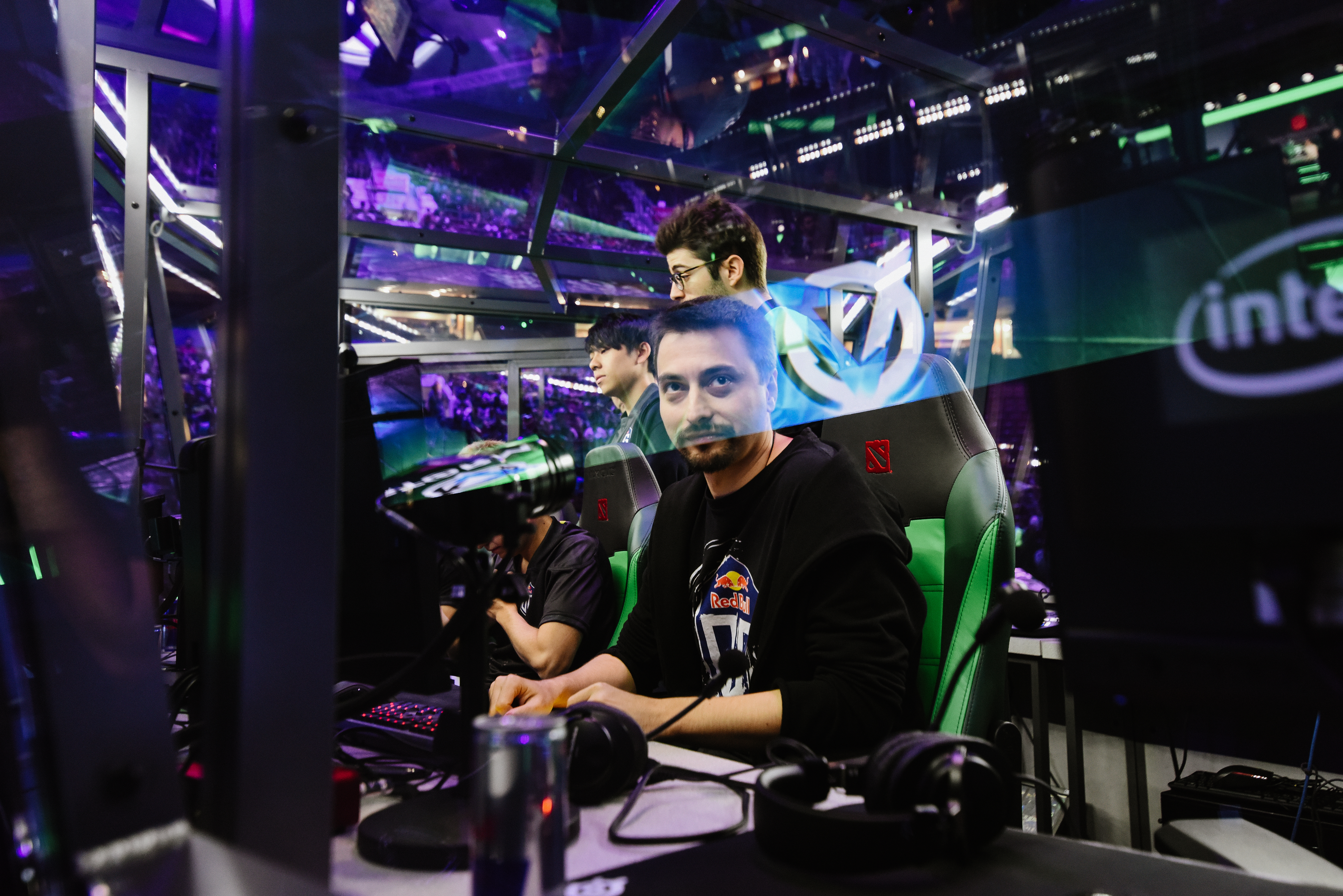 The International 2018